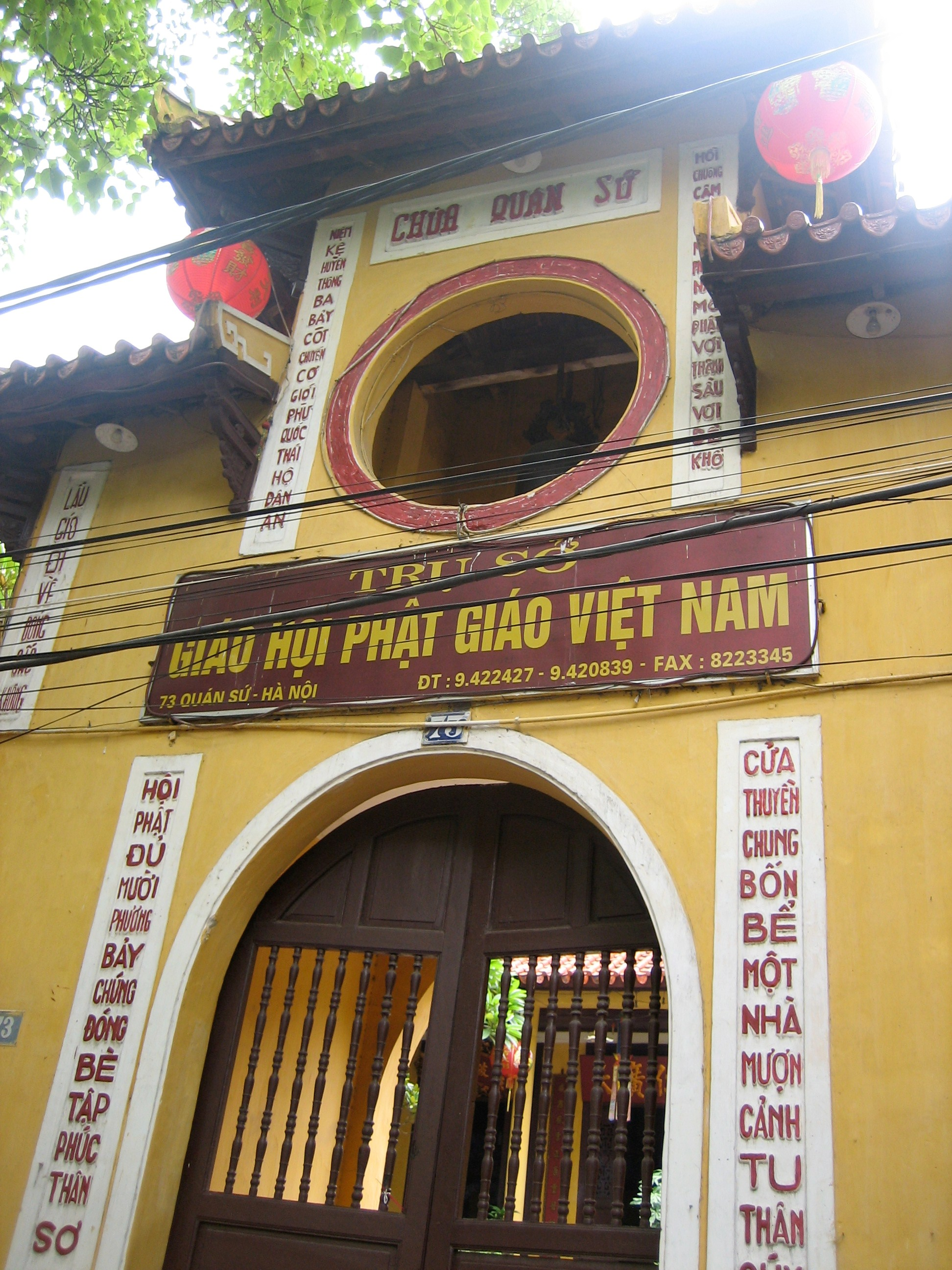 Main gate of the Quán Sứ pagoda, Hanoi.